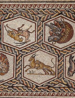 Detail of the Lod Mosaic, Israel Antiquities Authority